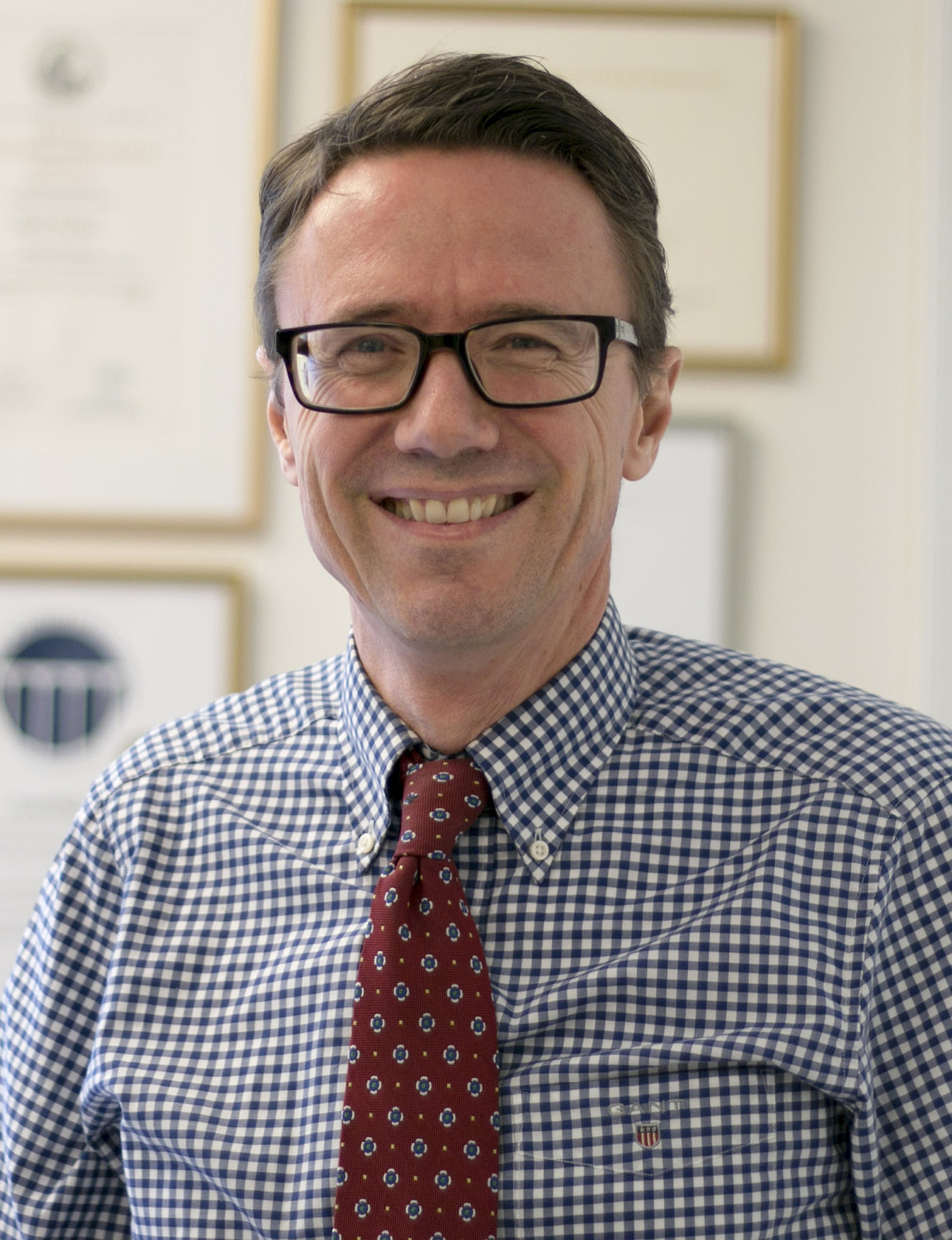 Prof. Jens Nielsen, Chalmers University of Technology, FEB 2017